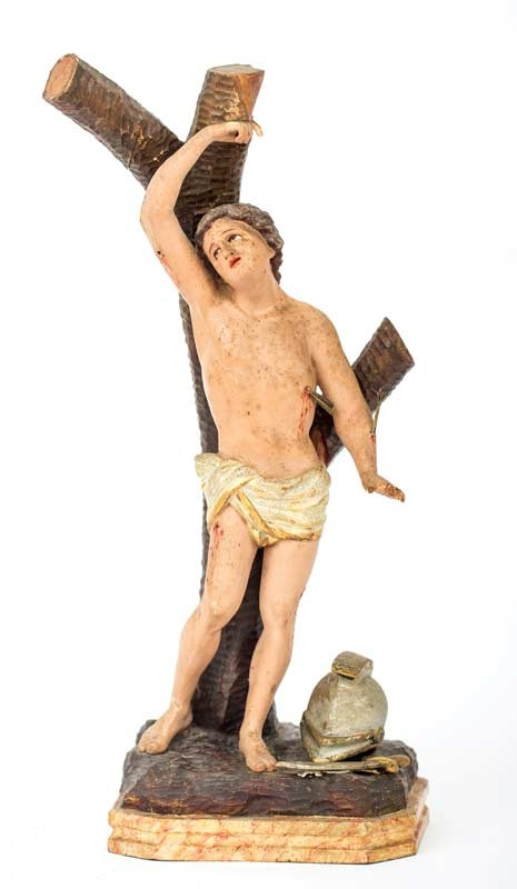 Statue of Saint Sebastian